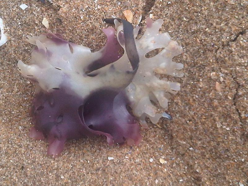 Irish moss or carrageen moss (Chondrus crispus) at Broadstairs, England.